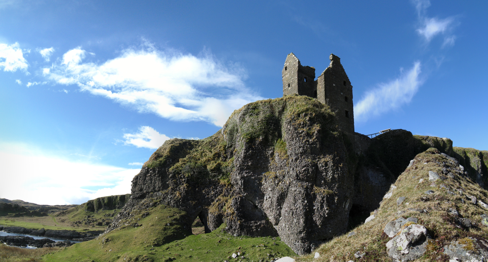 Gylen Castle on the Scottish isle of Kerrera, near Oban. Composed from several overlapping exposures to capture the whole building from this location.